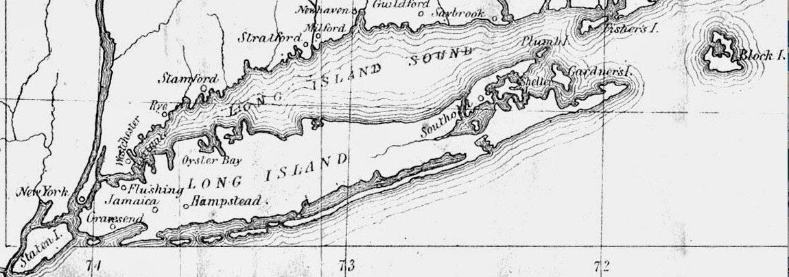 Map of Long Island, New York, 1686